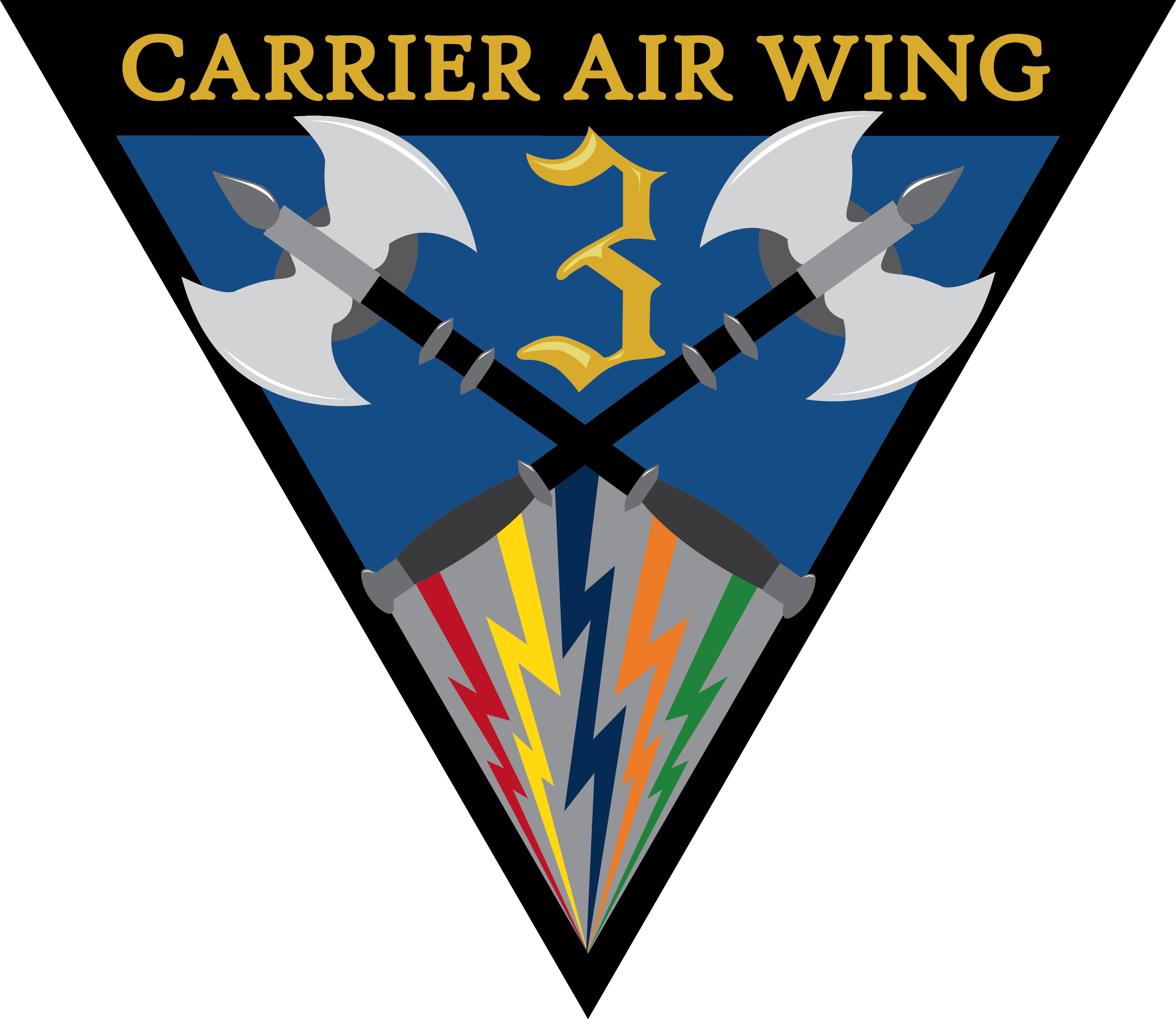 Insignia of the U.S. Navy Carrier Air Wing Three (CVW-3).